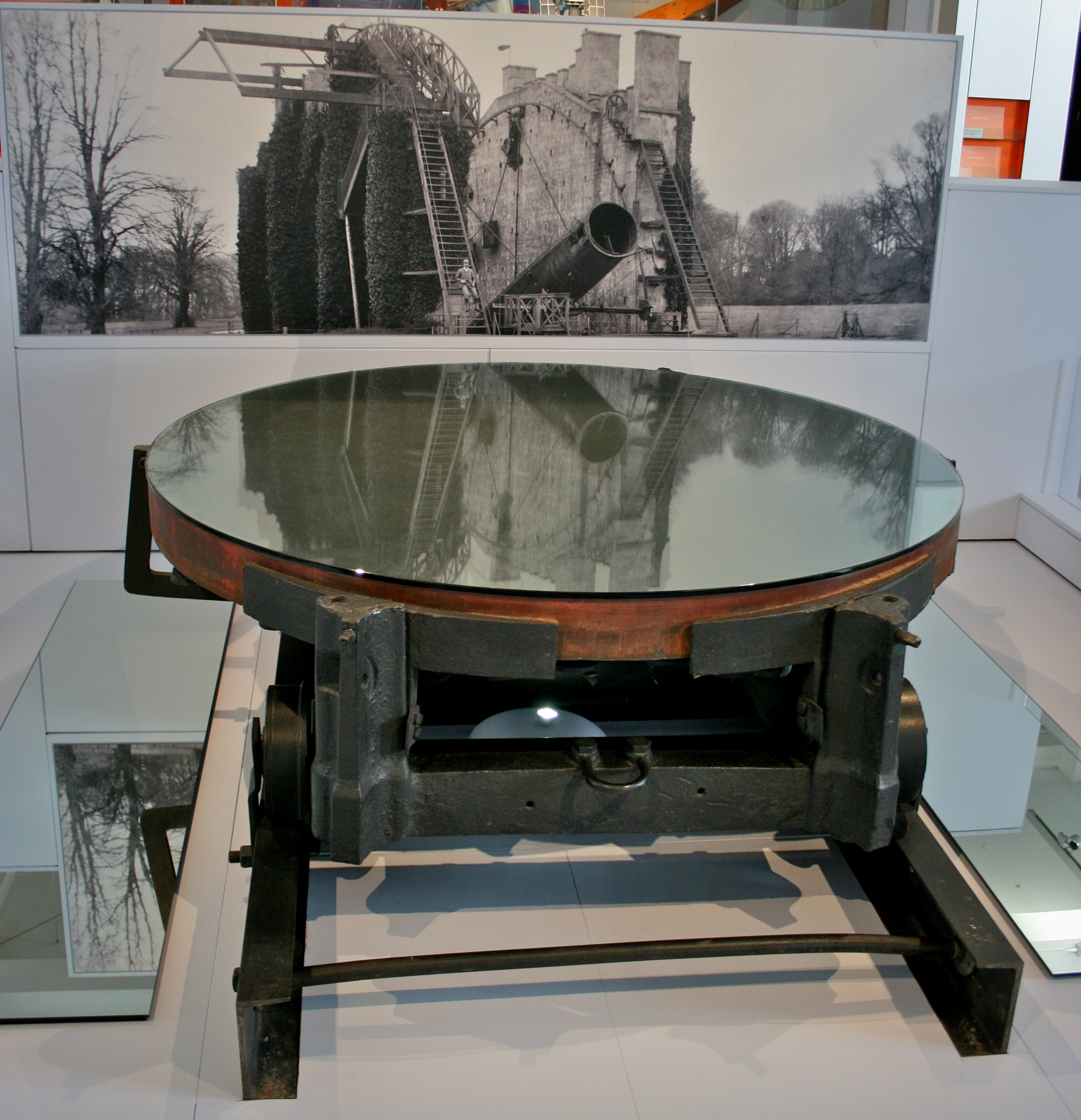 Mirror from the Great Rosse Telescope, c. 1845. At the Science Museum, London